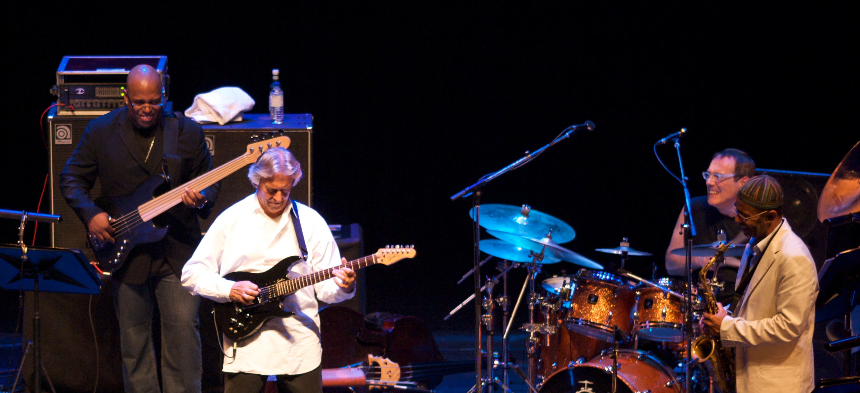 Christian McBride, Vinnie Colaiuta, Kenny Garrett and John McLaughlin playing jazz